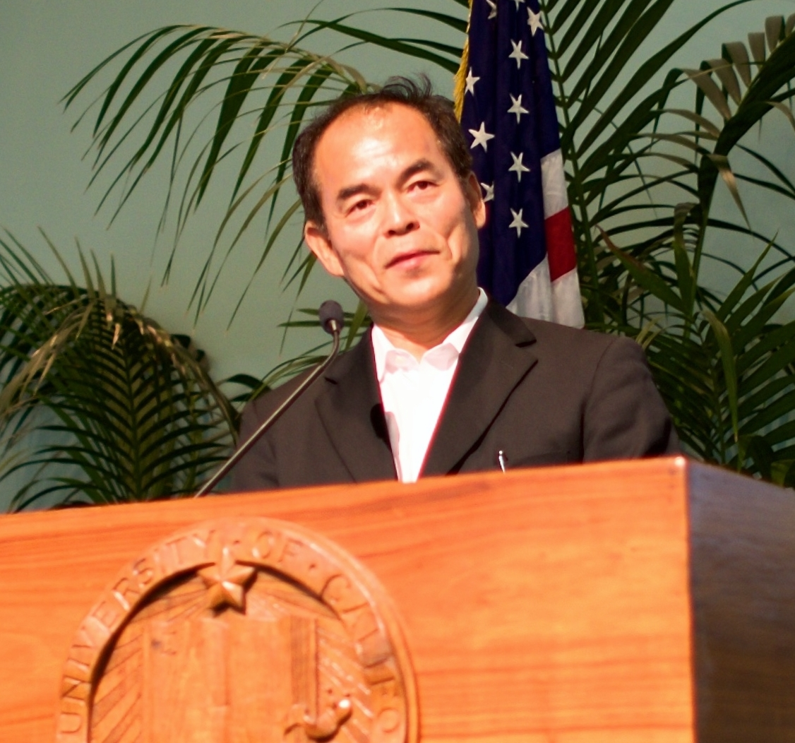 Professor Shuji Nakamura speaks at UCSB on October 30, 2014.